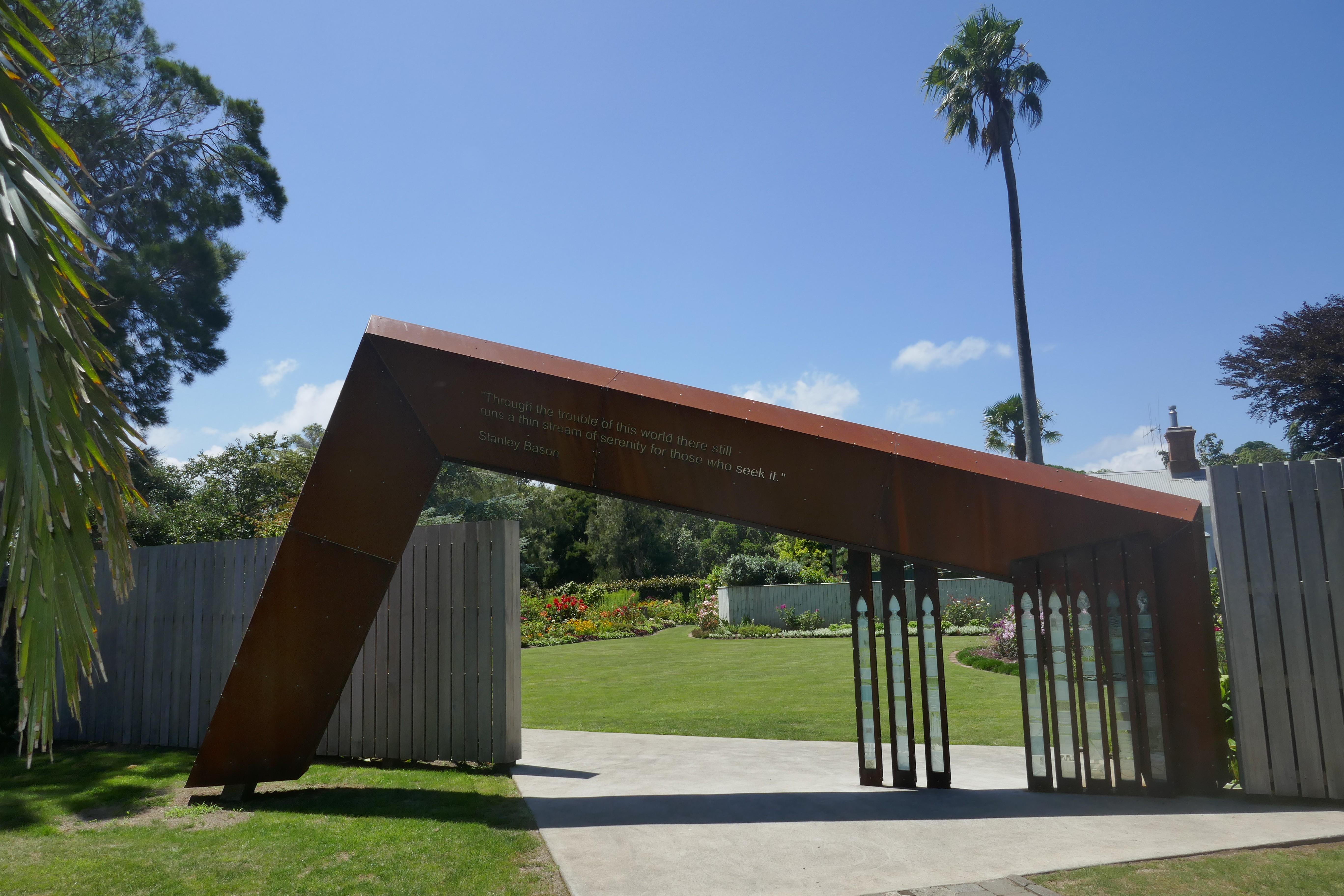 Bason Botanical Garden - entry to Homestead garden